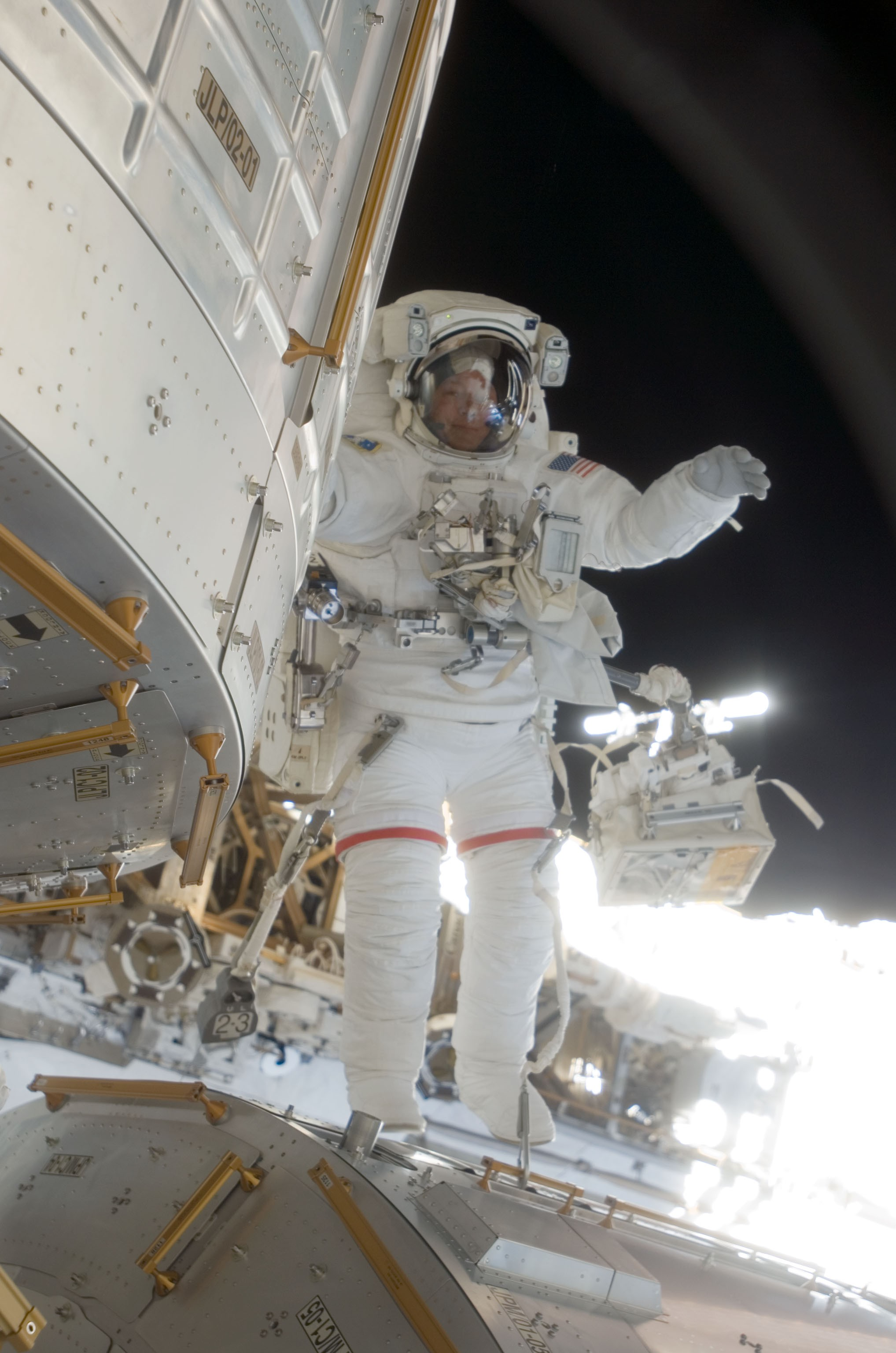 Astronaut Mike Fossum, STS-124 mission specialist, participates in the mission's second scheduled session of extravehicular activity (EVA) as construction and maintenance continue on the International Space Station. During the seven-hour, 11-minute spacewalk, Fossum and astronaut Ron Garan (out of frame), mission specialist, installed television cameras on the front and rear of the Kibo Japanese Pressurized Module (JPM) to assist Kibo robotic arm operations, removed thermal covers from the Kibo robotic arm, prepared an upper JPM docking port for flight day seven's attachment of the Kibo logistics module, readied a spare nitrogen tank assembly for its installation during the third spacewalk, retrieved a failed television camera from the Port 1 truss, and inspected the port Solar Alpha Rotary Joint (SARJ).